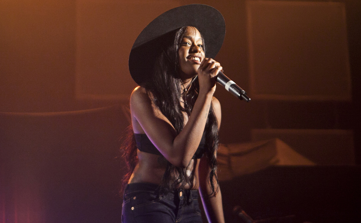 Azealia Banks performs at the 2012 NME Awards at the Brixton Academy in London.